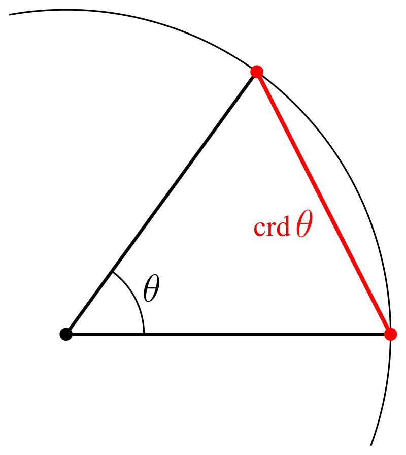 crd function